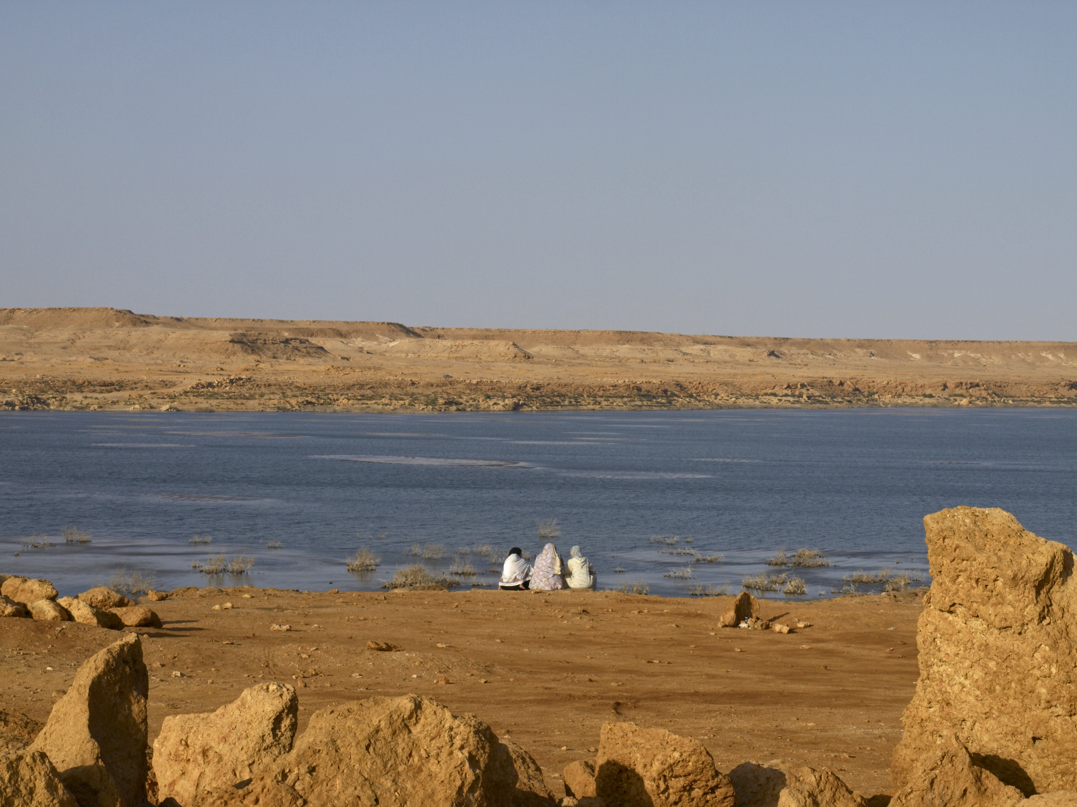 Water reservoir at El Ayun